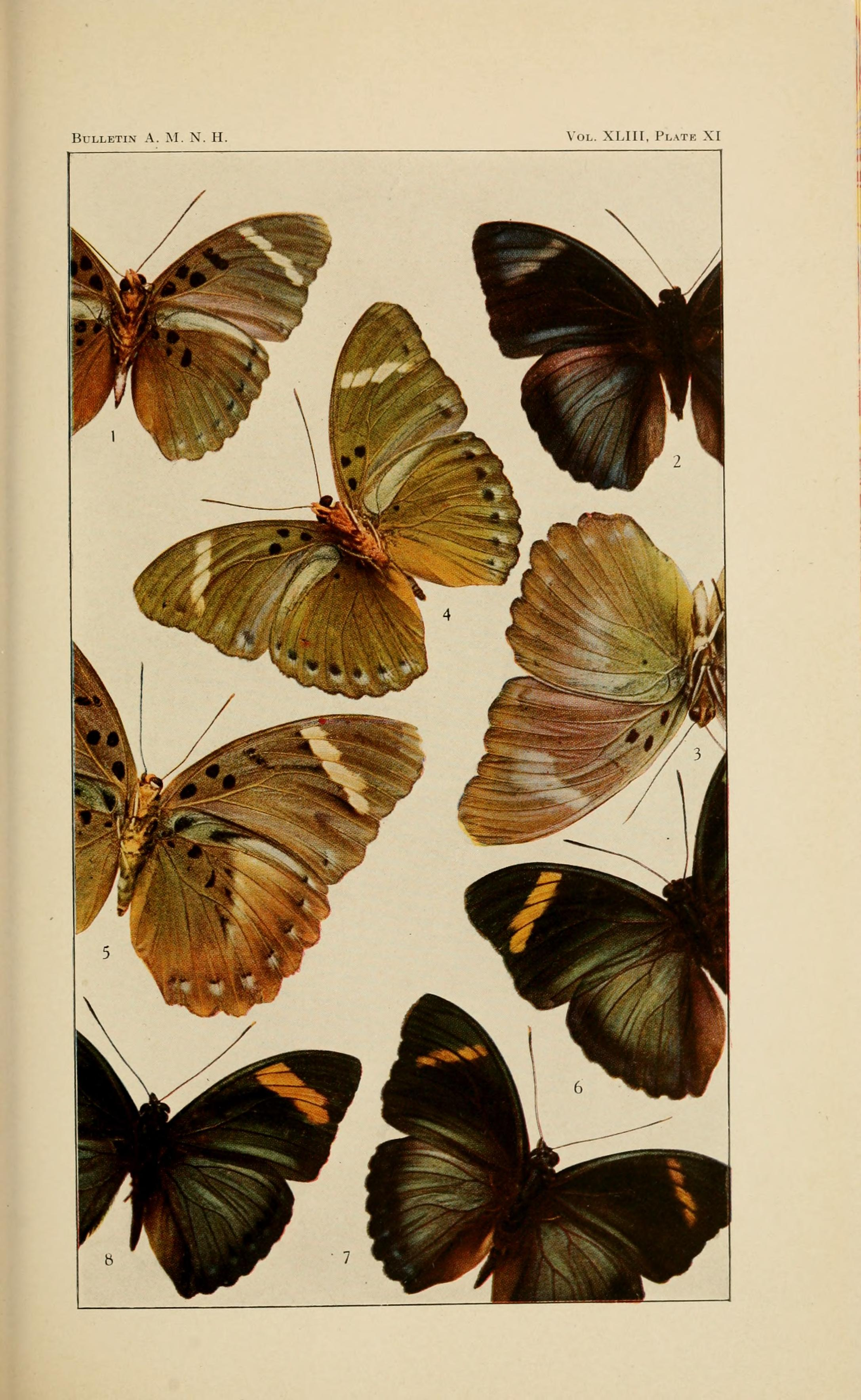 Holland, W.J. (1920): Lepidoptera of the Congo, being a systematic list of the butterflies and moths collected by the American Museum of Natural History Congo Expedition, together with descriptions of some hitherto undescribed species. Bulletin of the American Museum of Natural History 43:109-369. PlateXI 1 Euphaedra preussi notata Holland, 1920 synonym of Euphaedra preussi preussi Staudinger, 1891 male holotype verso 2 Euphaedra inanoides Holland, 1920 synonym of Euphaedra viridicaerulea inanoides Holland, 1920 male holotype 3 Euphaedra inanoides Holland, 1920 synonym of Euphaedra viridicaerulea inanoides Holland, 1920 female allotype 4 Euphaedra preussi subviridis Holland, 1920 synonym of Euphaedra subviridis Holland, 1920 male holotype verso 5 Euphaedra rezioides Holland, 1920 synonym of Euphaedra cottoni Sharpe, 1907 female type verso 6 Euphaedra preussi var. fulvofasciata Holland, 1920 synonym of Euphaedra fulvofasciata Holland, 1920 male holotype 7 Euphaedra preussi angustior (var.) Holland, 1920 synonym of Euphaedra fulvofasciata Holland, 1920 Hecq? 8 Euphaedra preussi var. latefasciata Holland, 1920 synonym of Euphaedra preussi Staudinger, 1891 text